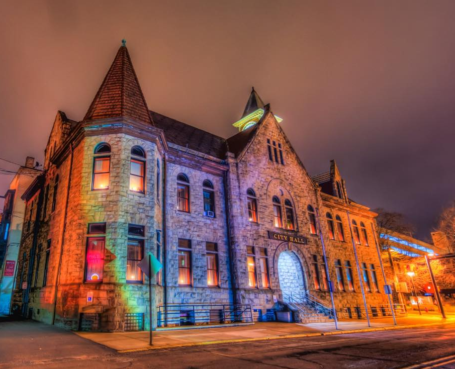 Johnstown City Hall as it stands today.